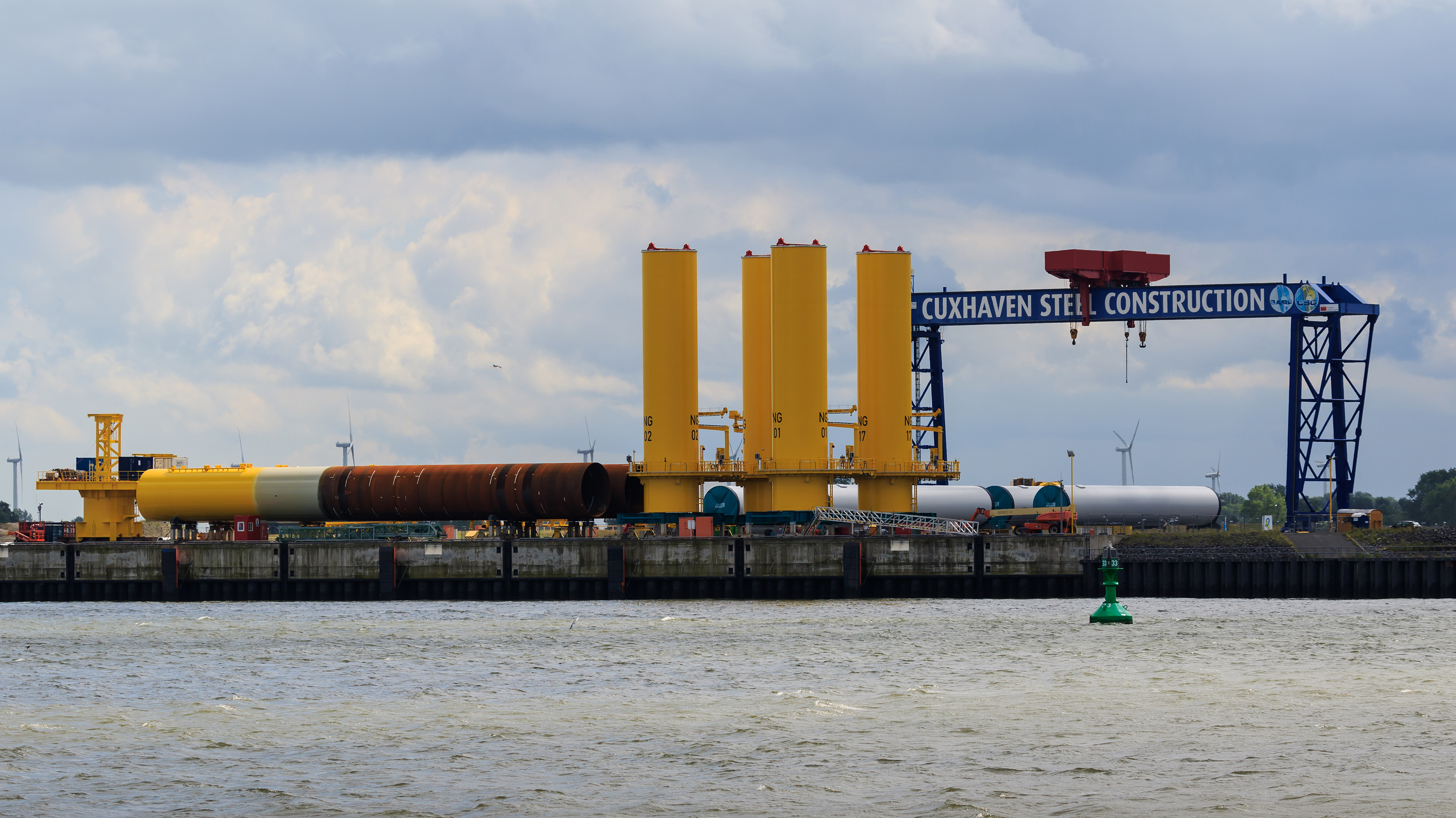 Outer Elbe at Cuxhaven, Germany